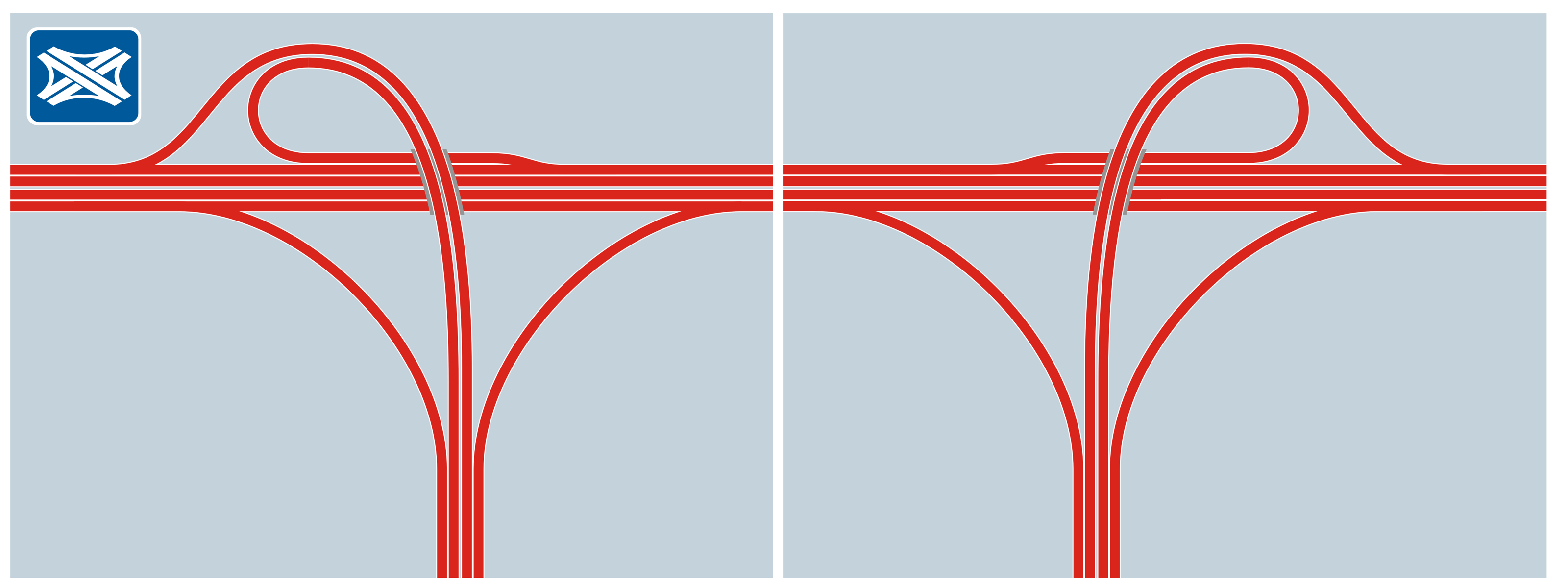 Traffic Junction 'Trumpet'